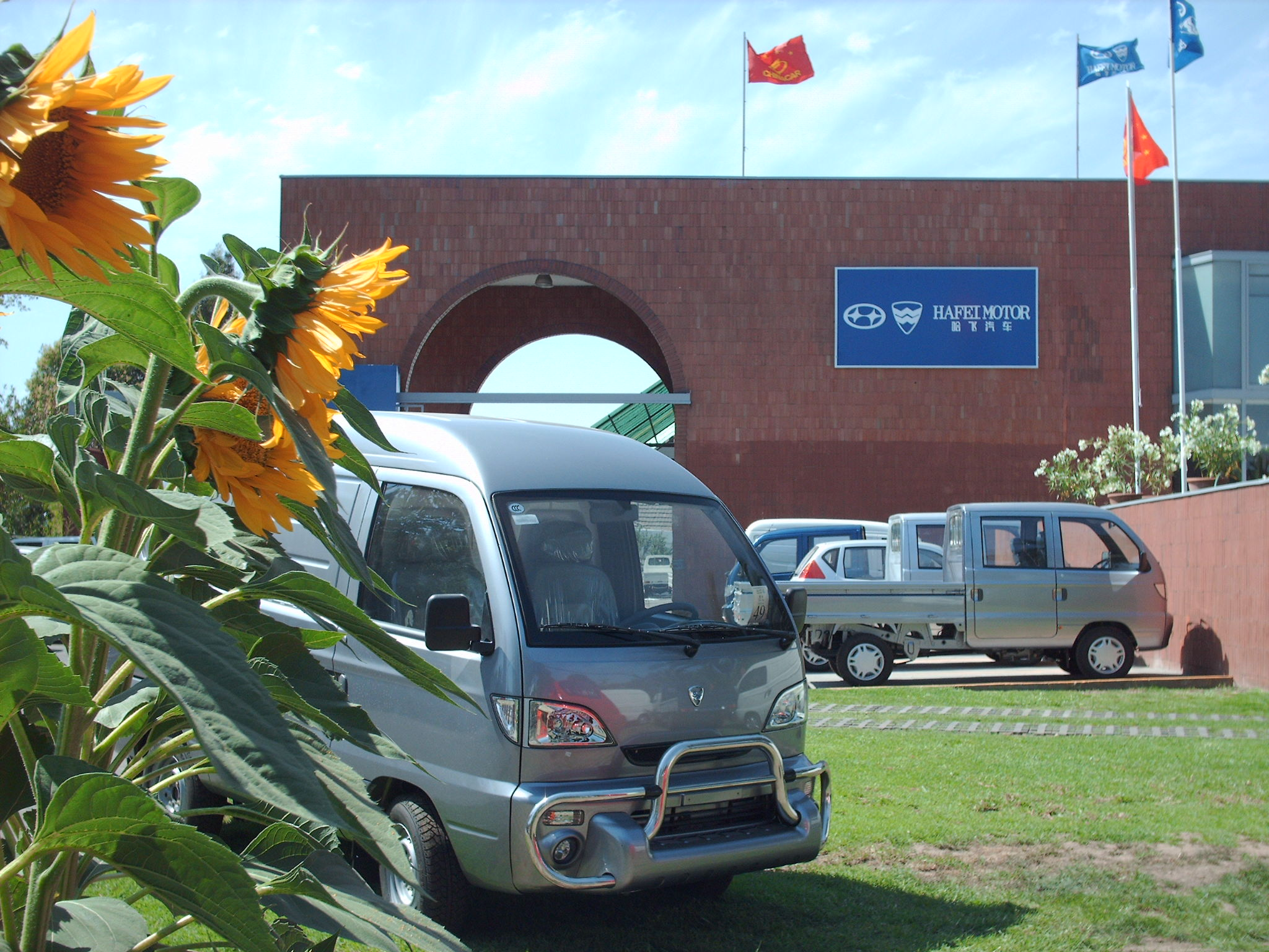 Hafei Zhongyi (Hafei Ruiyi is in the background) (Av. Bilbao, Providencia, Santiago, Chile.)